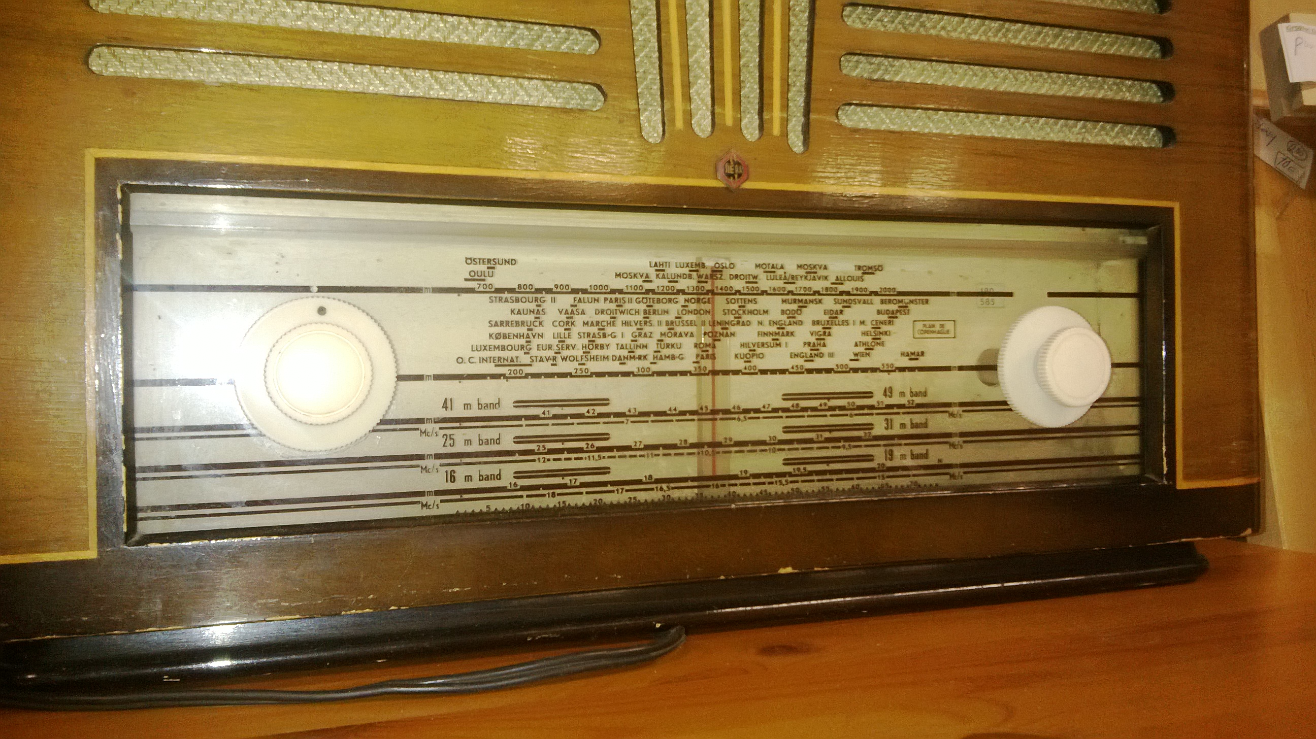 Dial of a Siera S255A, photographed at second-hand shop